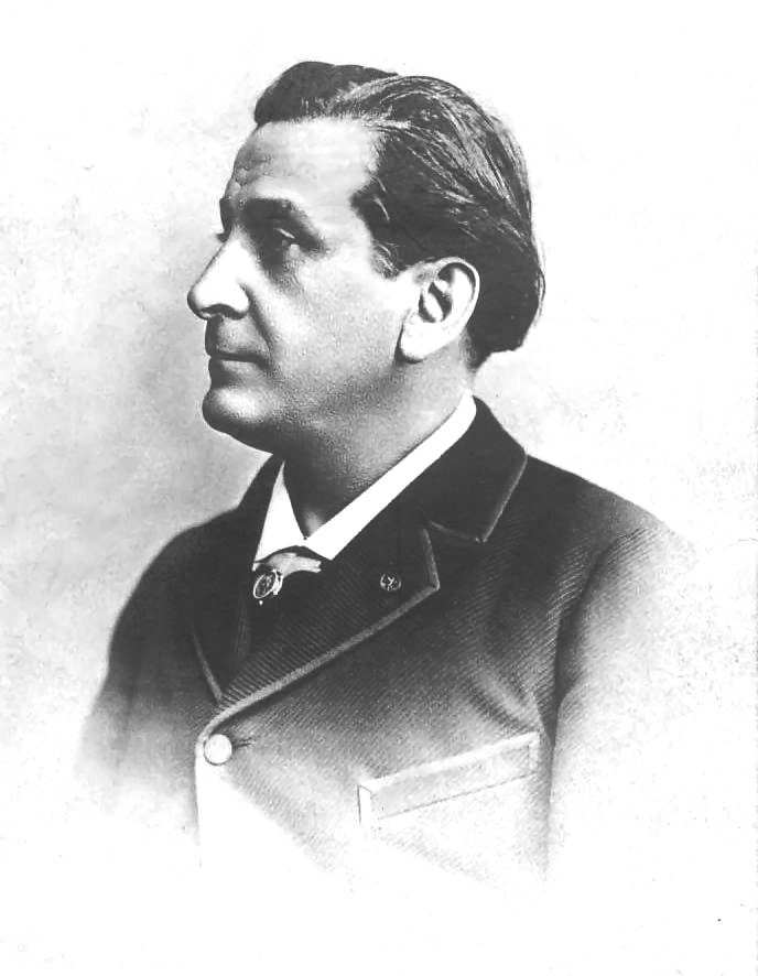 François Coppée (1842–1908) was an French writer.